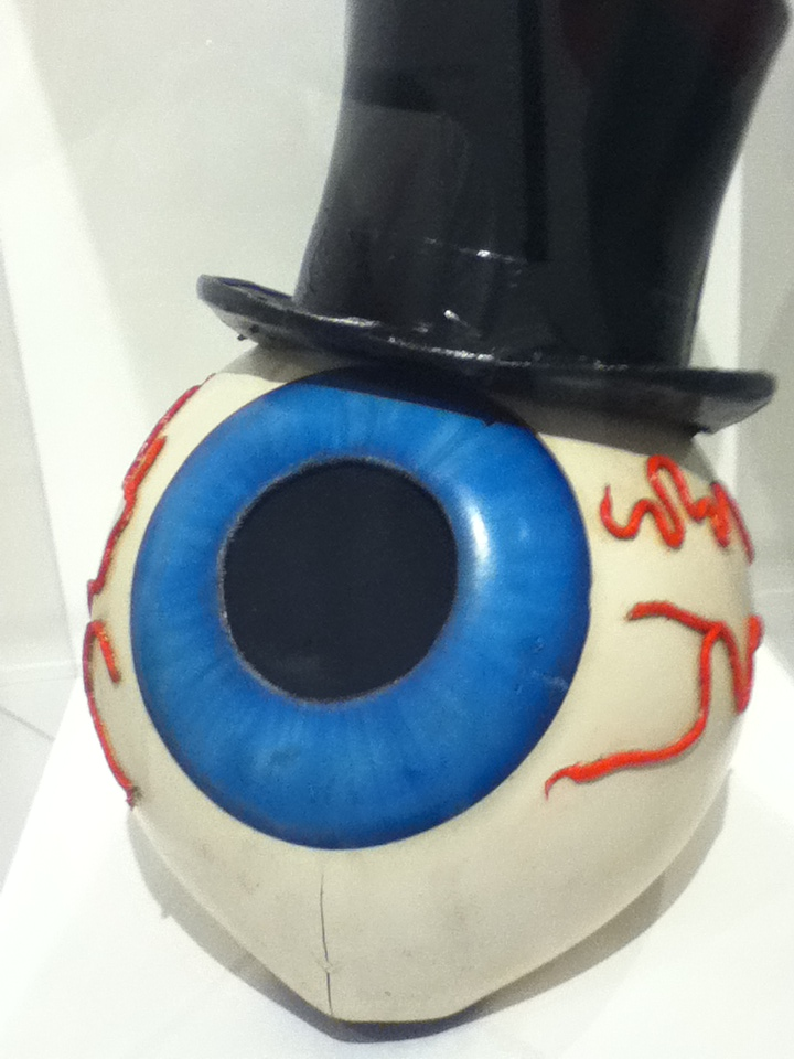 Eye used by one of the Residents